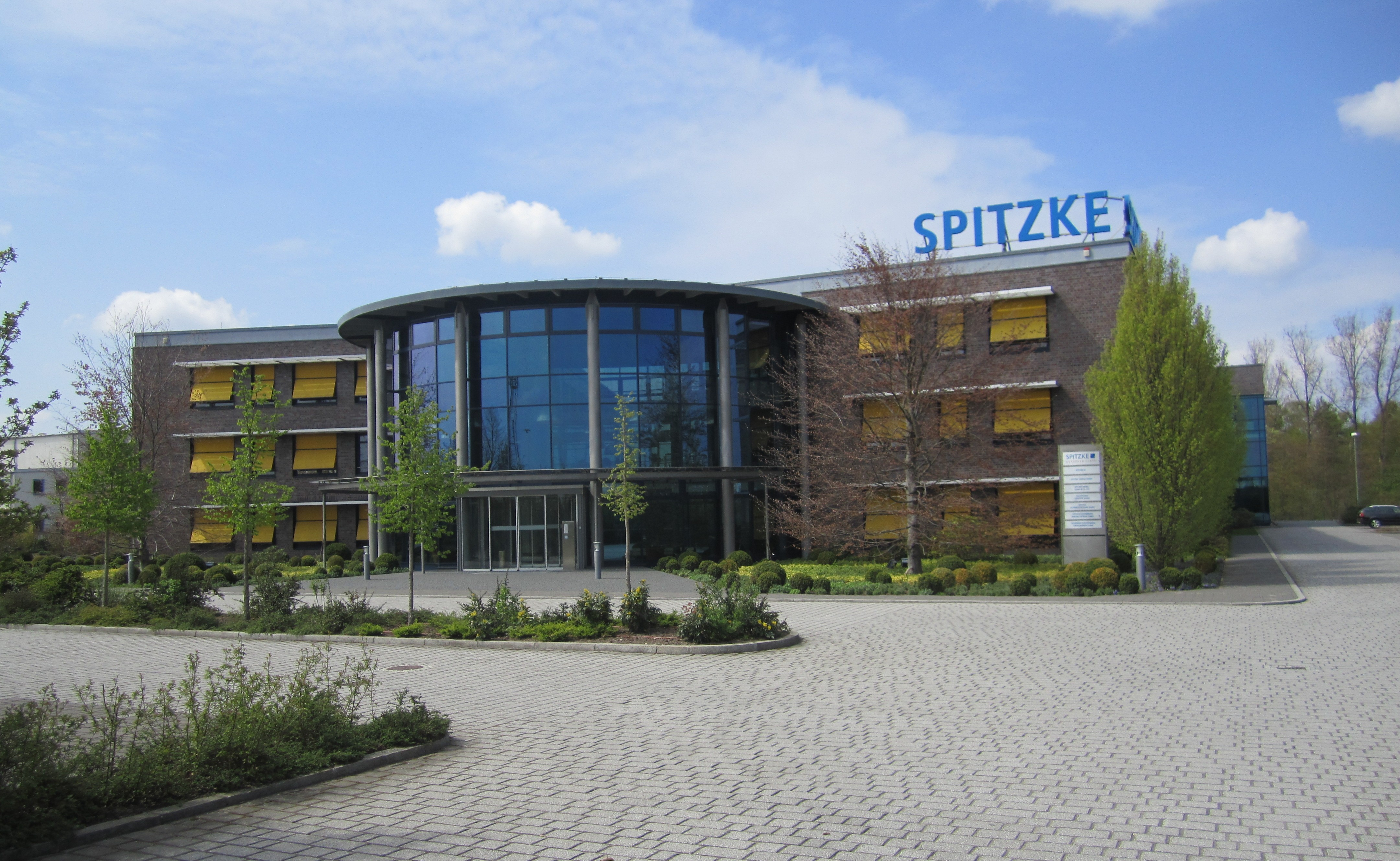 Spitzke Office building, Großbeeren near Berlin, Germany.